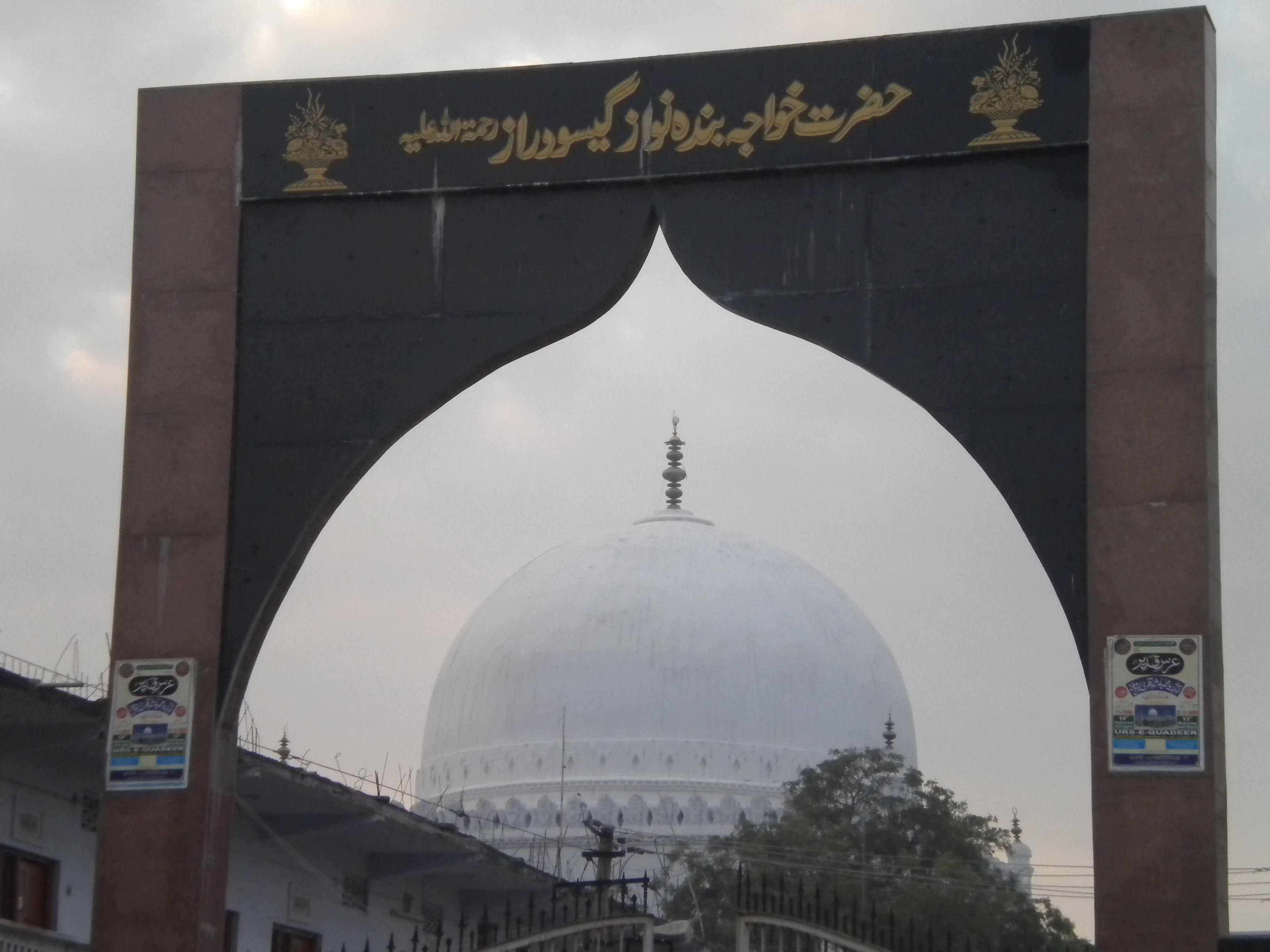 Dargah-maingate